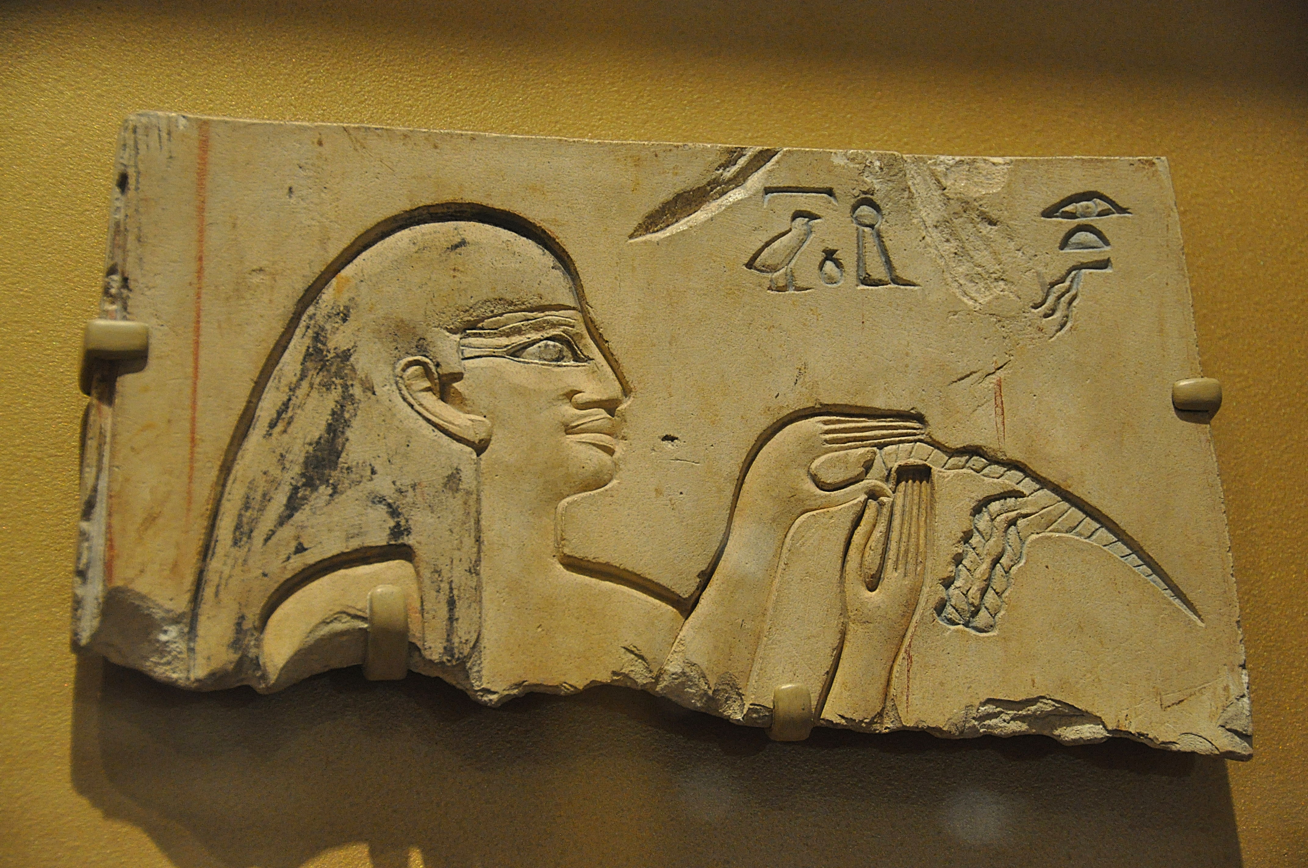 Relief of Hairdresser Inu, ca. 2008-1957 B.C.E. Limestone, painted, 5 3/16 x 9 5/8 in. (13.2 x 24.5 cm). Brooklyn Museum, Charles Edwin Wilbour Fund, 51.231. From the tomb of the king's daughter and king's wife Neferu; wife of king Mentuhotep II.